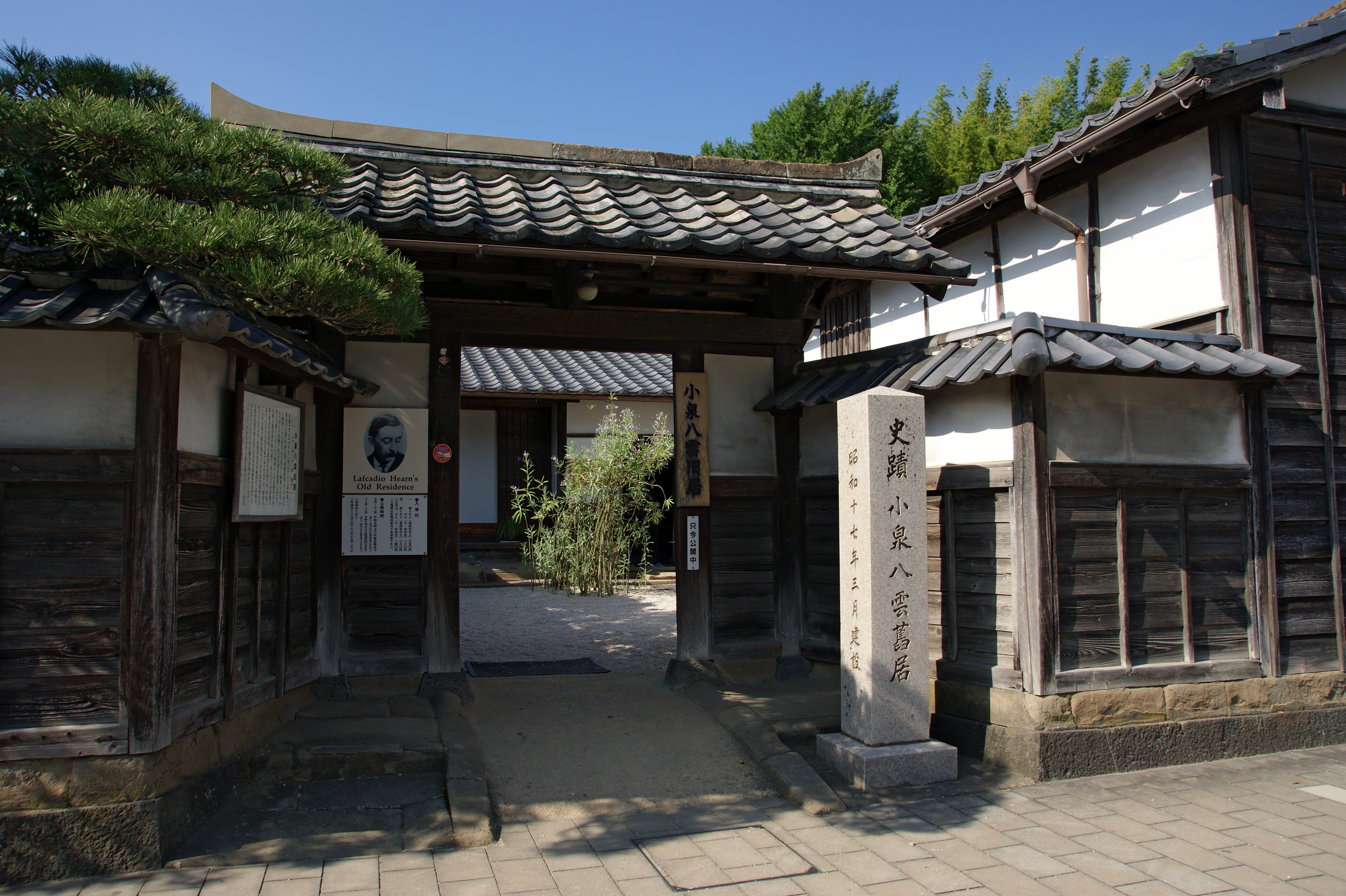 Lafcadio Hearn's Old Residence in Matsue, Shimane prefecture, Japan